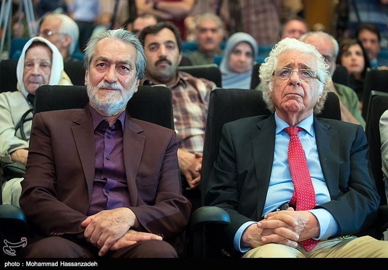 Commemoration of Majid Entezai (2017)